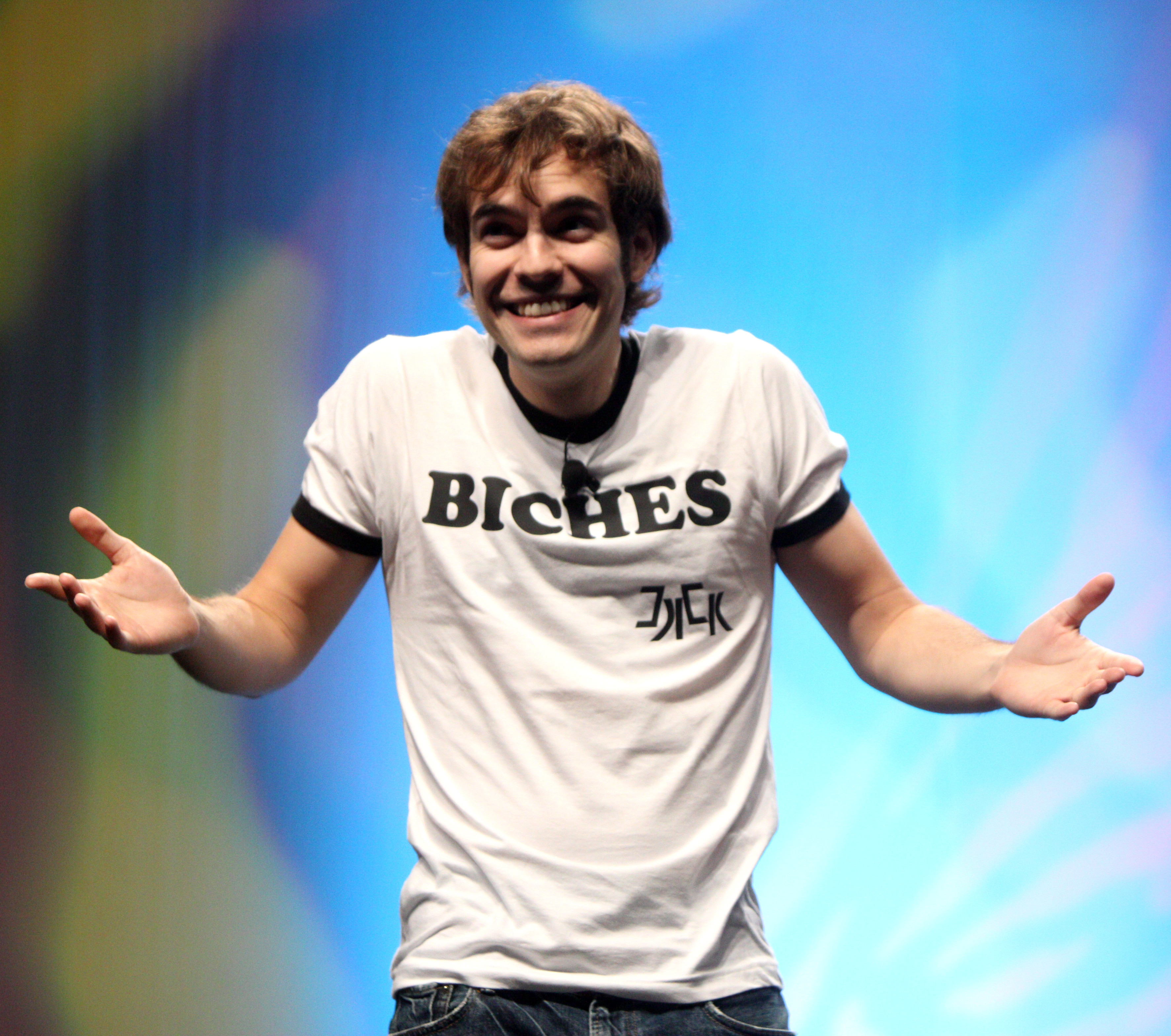 JacksFilms speaking at VidCon 2012 at the Anaheim Convention Center in Anaheim, California.